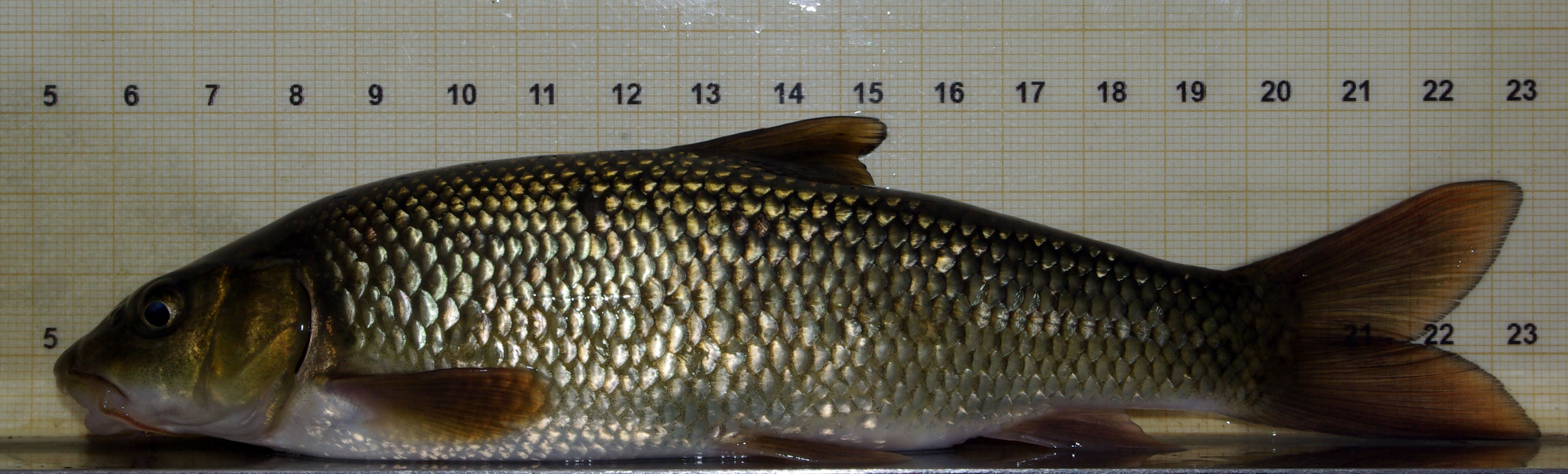 Ebro Barbel (Barbus graellsii). River Ebro, near Cereceda, Burgos (Spain)